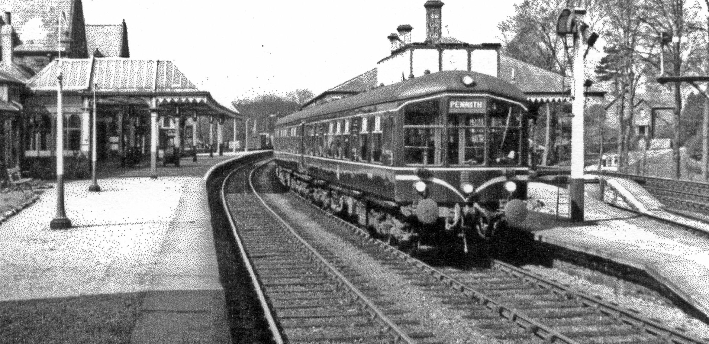 Keswick station, with new DMU, 1956View westward, towards Cockermouth and Workington, ex-LNWR Cockermouth, Keswick & Penrith section. This was one of the earliest lines to change to DMUs; here a Derby 'Lightweight' unit is working a Workington - Penrith service. Their introduction boosted traffic considerably, but nevertheless the line was closed west of Keswick from 4/66 and to Penrith from 6/3/72 - in spite of its being the main rail route into the heart of the Lake District.